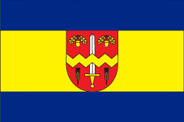 Flag of Putivlskij district (Ukraine)